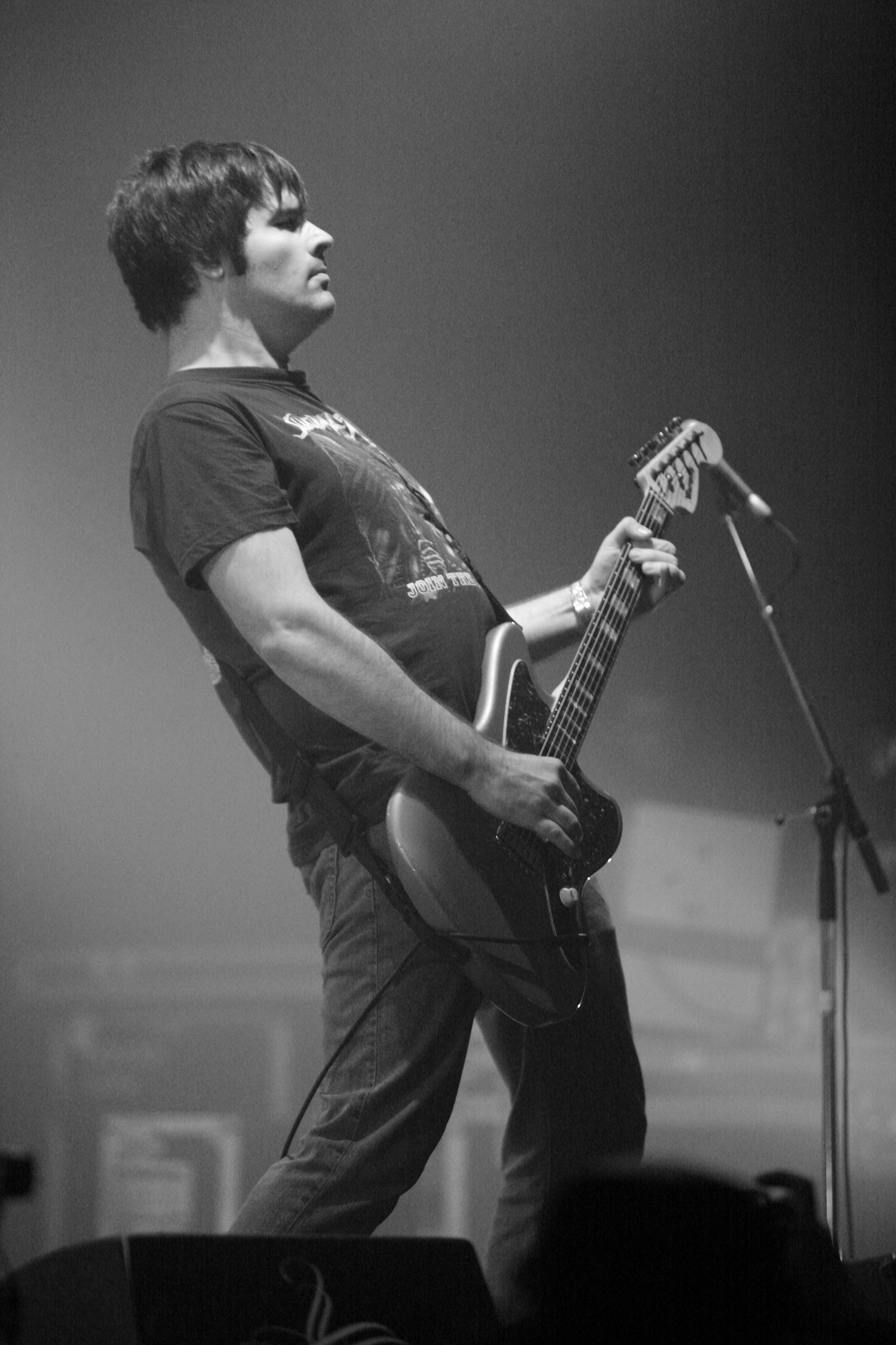 Converge at the Eurockéennes of 2007